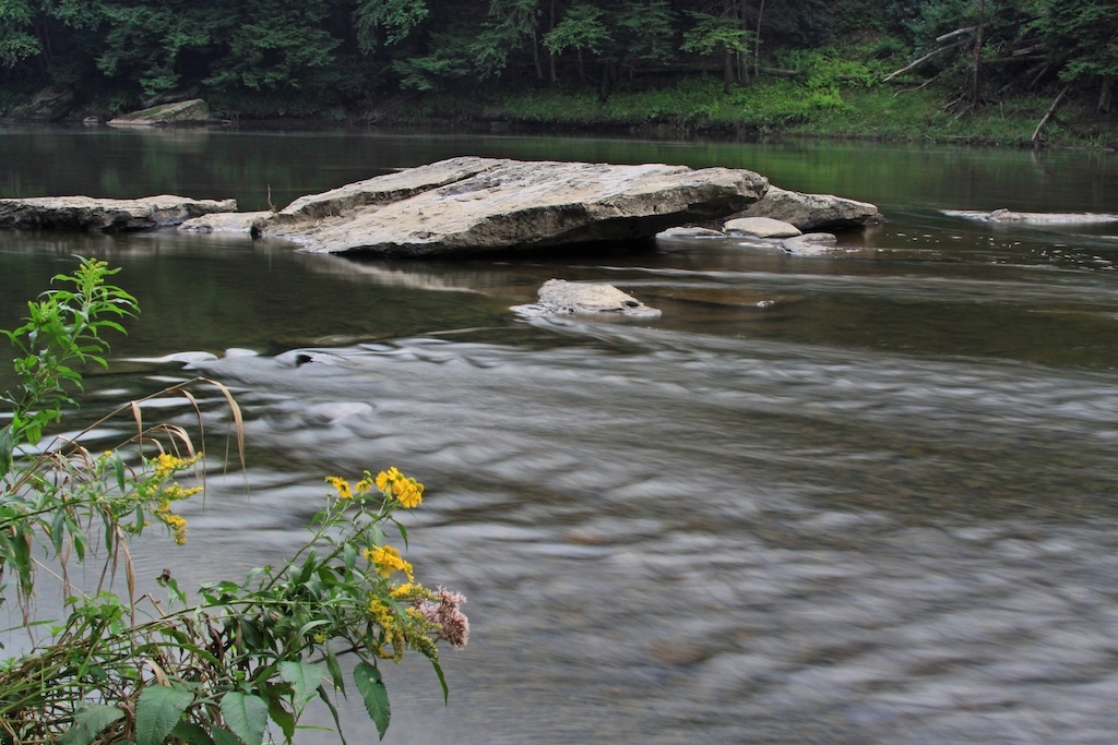 photograph of the Clarion River along the stretch that runs through Cook Forest Park.